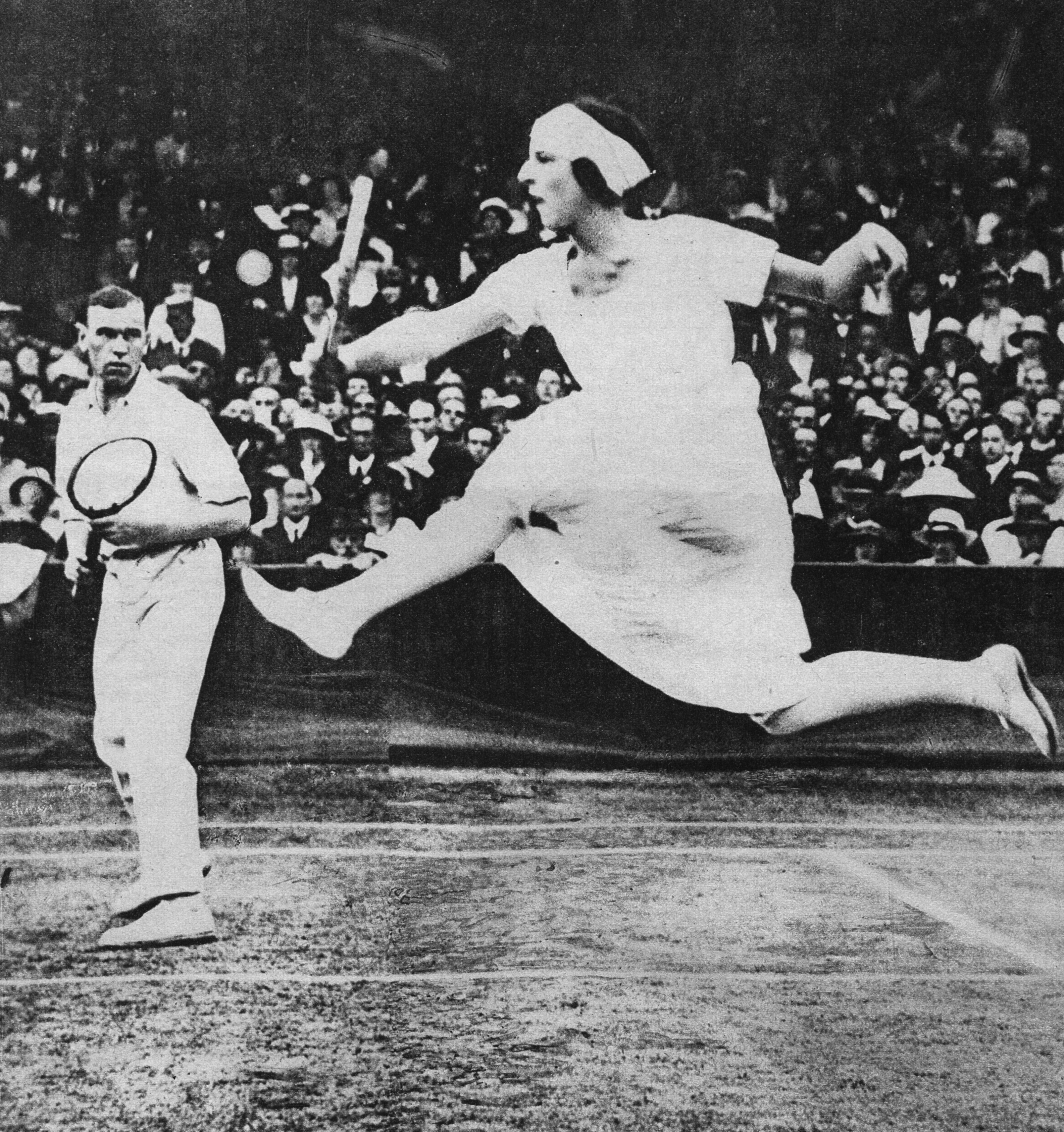 Front cover of Le Miroir des sports, first issue [n° 342], July 8th, 1920, with Suzanne Lenglen and Gerald Patterson after their title in the mixed doubles tournament of the Wimbledon Championships. Patterson is erroneously described as American instead of Australian in the captions of the cover.